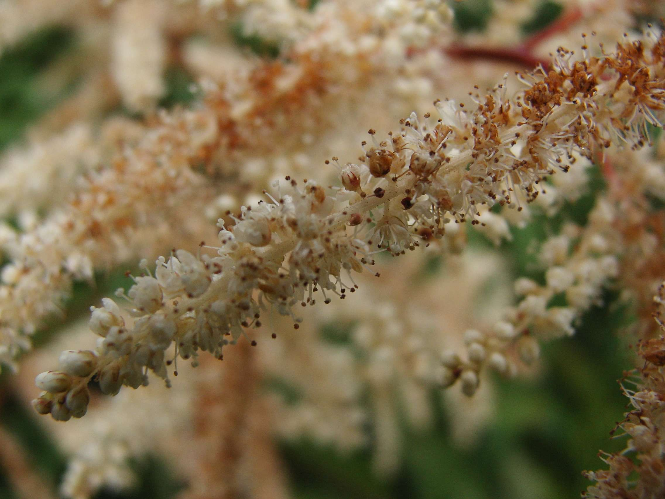 Aruncus dioicus in a garden in Cologne, Germany; closeup of flowers.